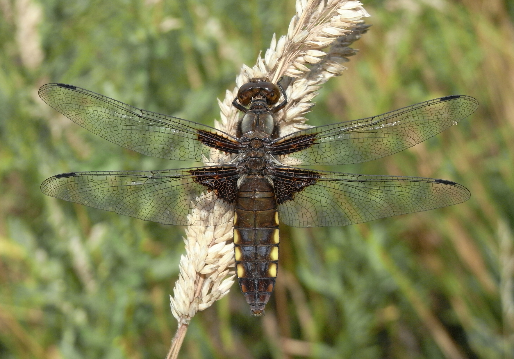 Female Broad-bodied Chaser (Libellula depressa), aged specimen near Hamburg, Germany.